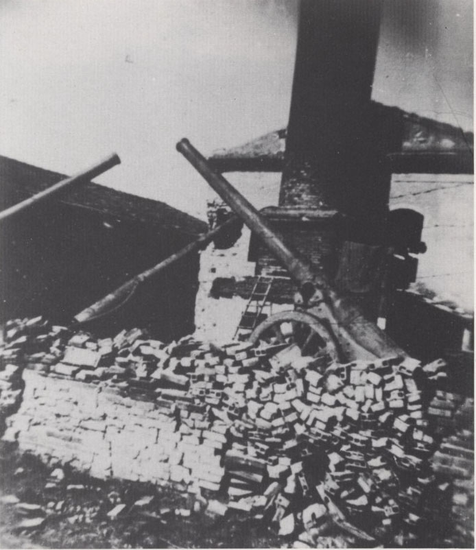 A factory in Cecina hit during the 1944 battle